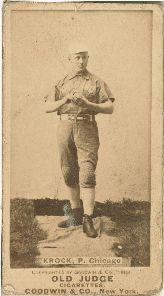 Title: Gus Krock, Chicago White Stockings, baseball card portrait Abstract/medium: 1 photographic print : albumen.